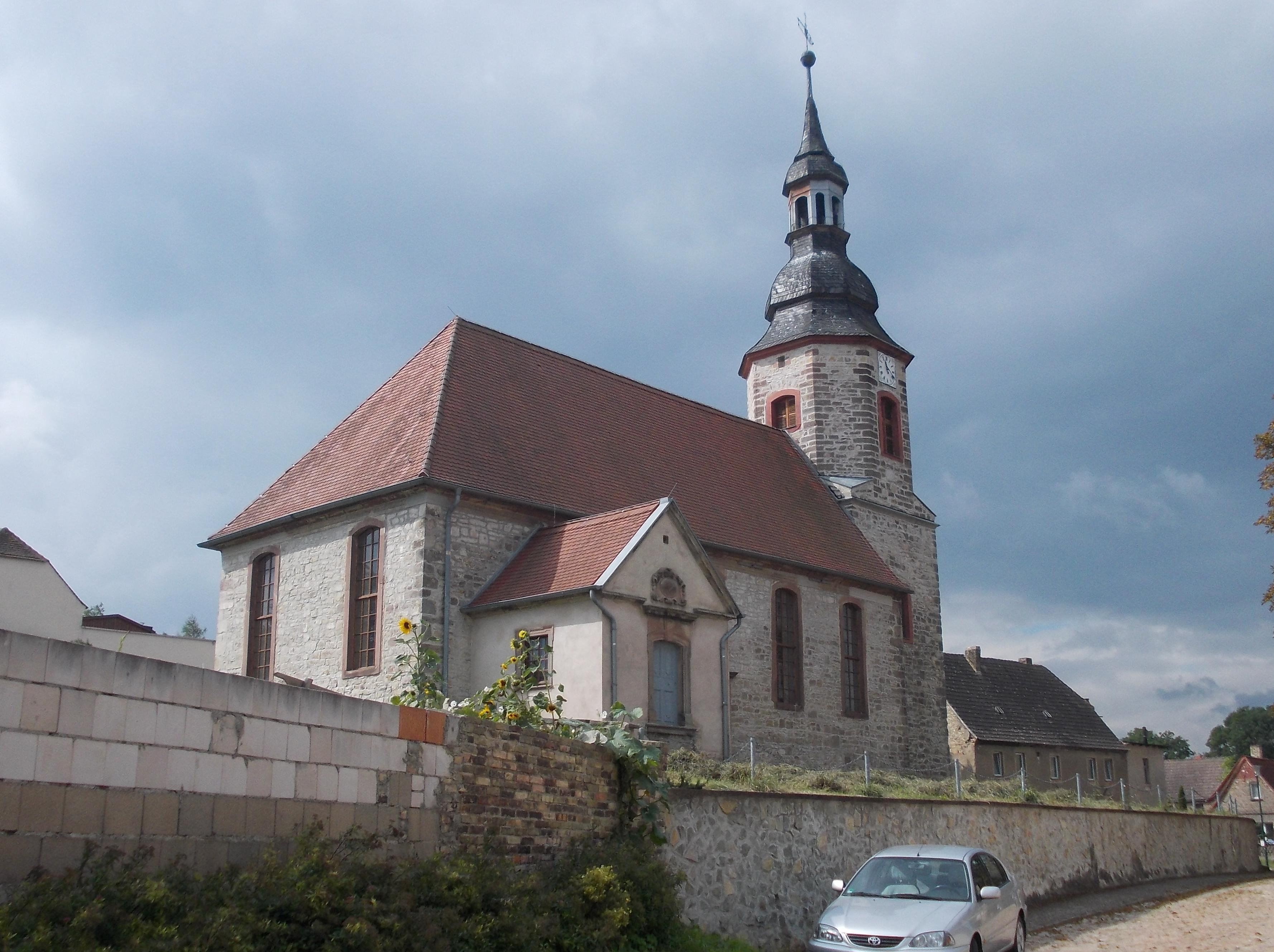 St. Godehard's Church in Oechlitz (Mücheln, district: Saalekreis, Saxony-Anhalt)